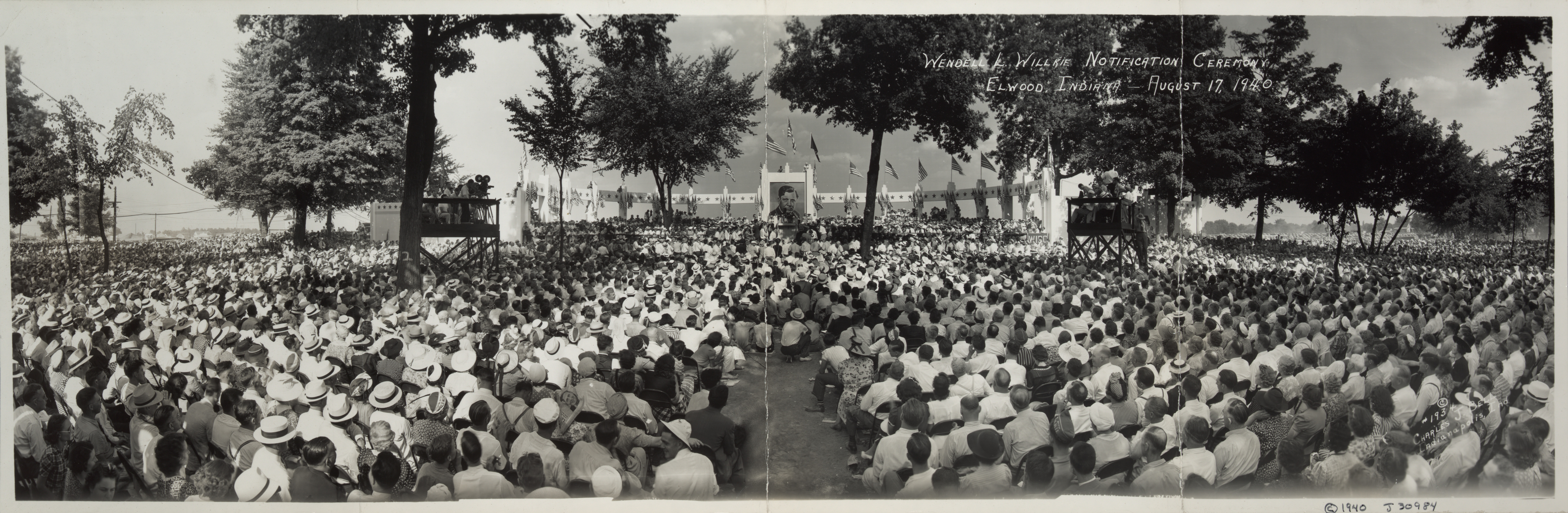 Wendell L. Willkie Notification Ceremony, Elwood, Indiana, U.S.A., August 17, 1940. Republican Party presidential candidate Wendell L. Willkie is officially notified of his nomination in his hometown.